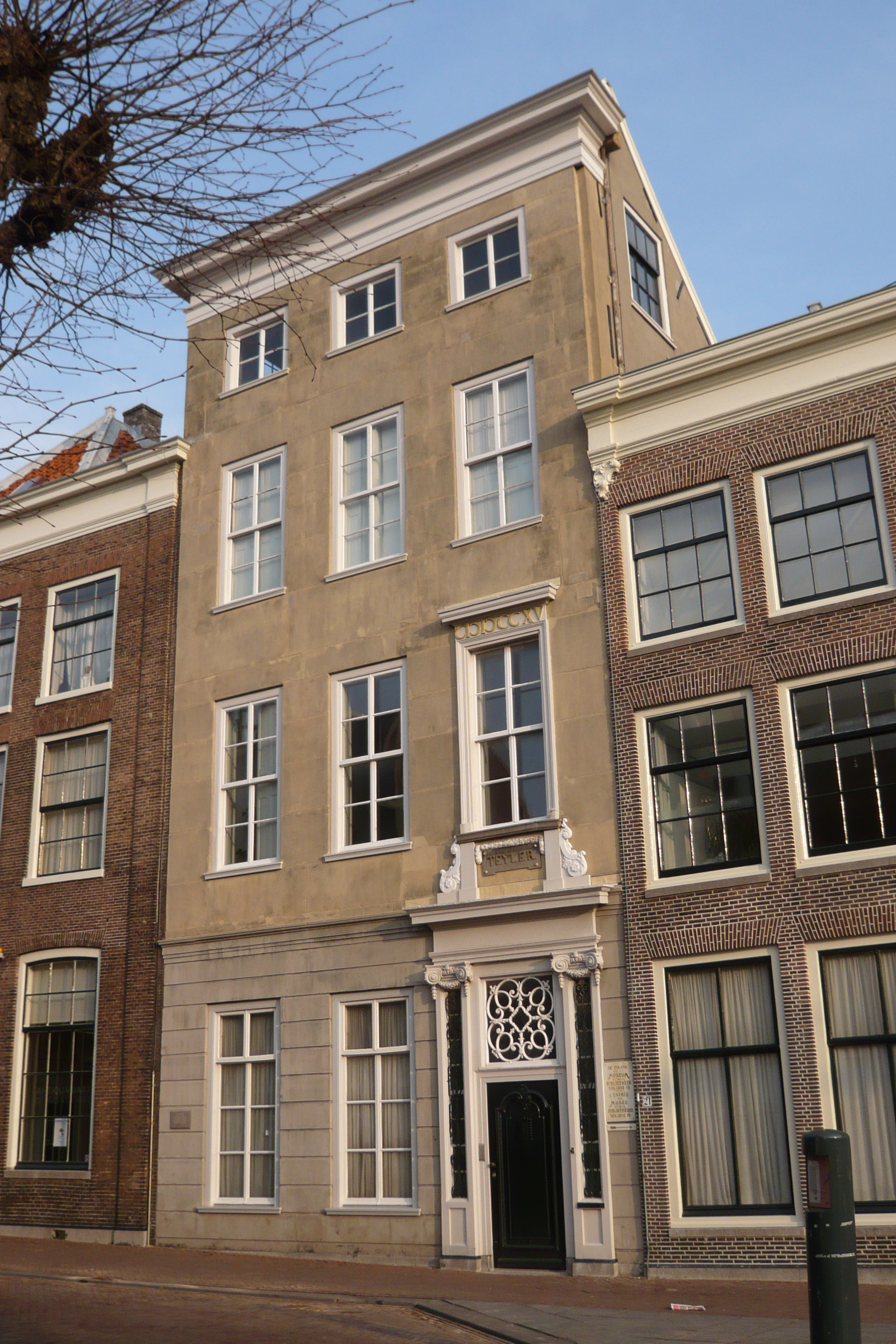 Teylers Fundatiehuis, Damstraat, Haarlem. This is the entrance to the former home of Pieter Teyler van der Hulst, and until the 19th century, this was the entrance to the Teylers Museum. Today the entrance is still used for management of the various Teyler societies, and it is open for tours on Monument Day.